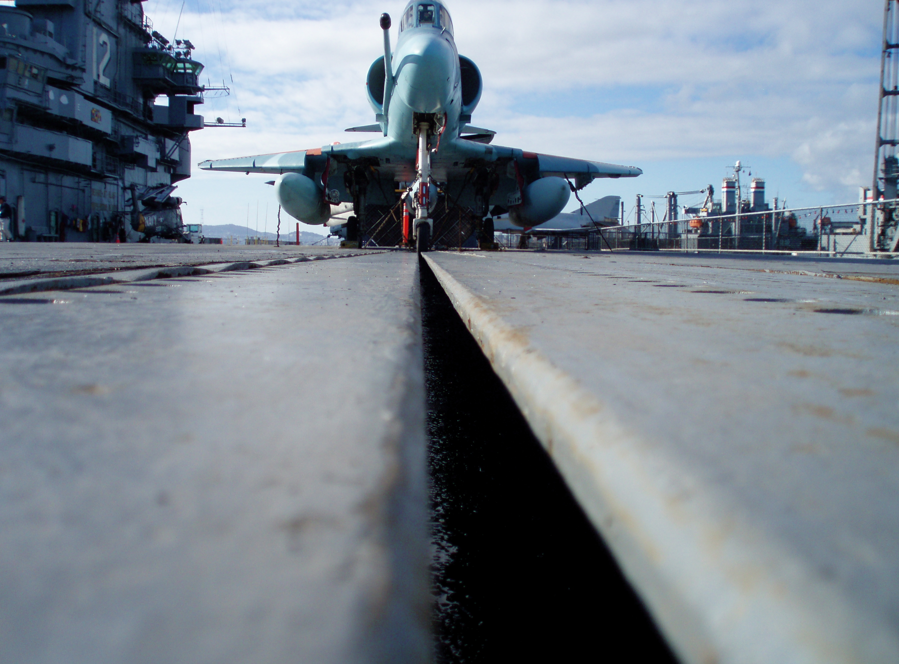 Deck-level view of the catapult aboard USS Hornet (CV-12).